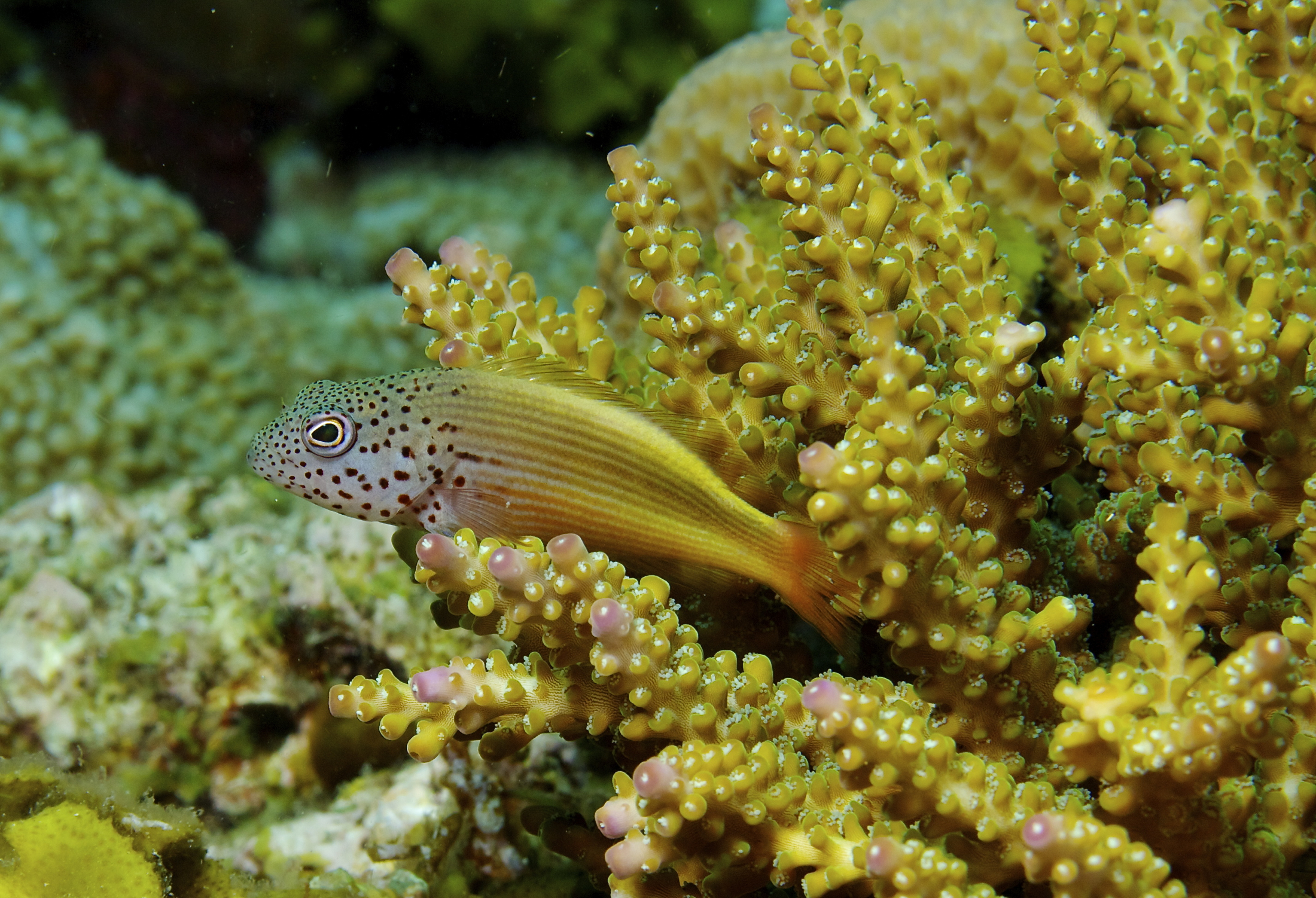 Paracirrhites forsteri Forsters Hawkfish juvenile